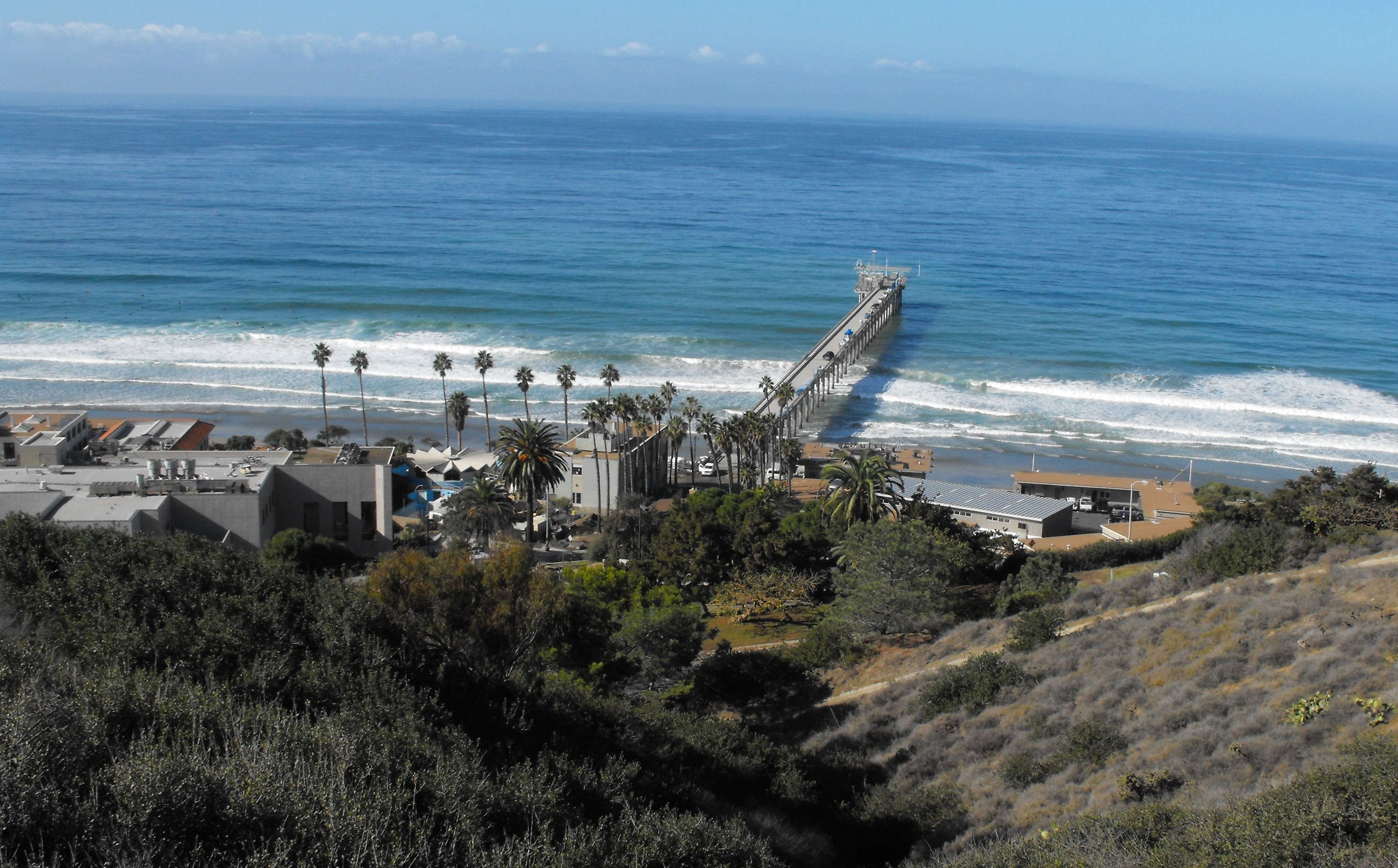 Scripps Pier at the Scripps Institution of Oceanography as viewed from Birch Aquarium, San Diego, California, USA.